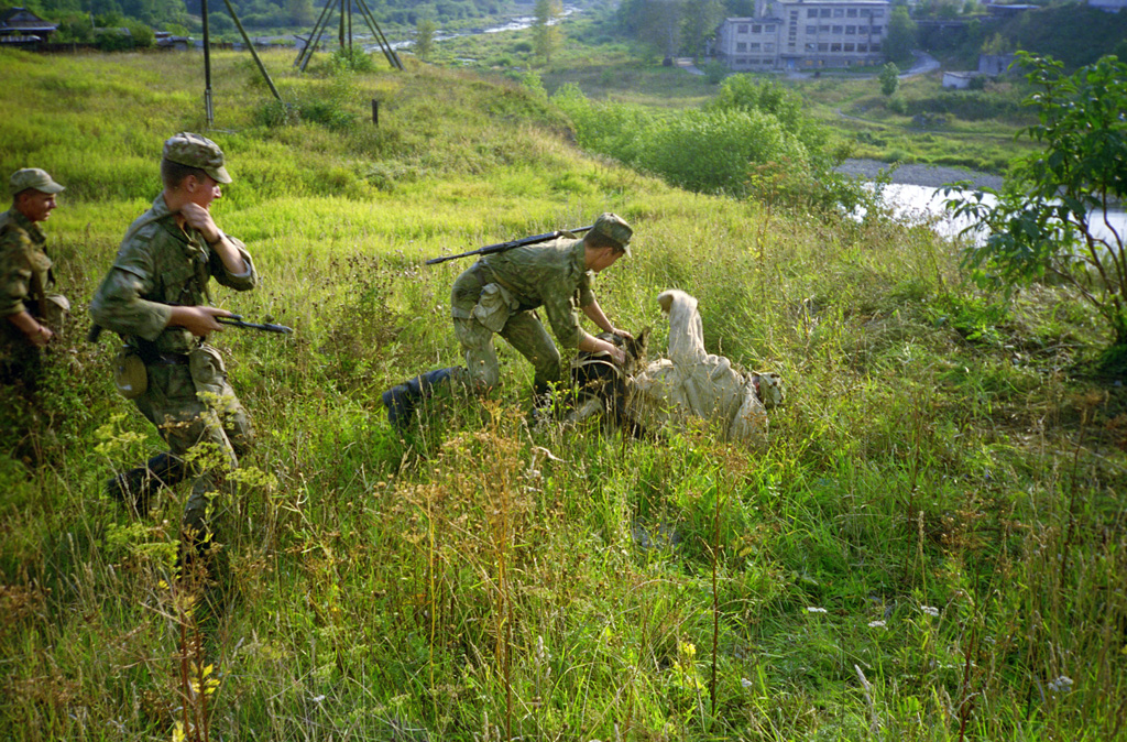 “Detention of infiltree, border guard exercises”. Detaining an infiltree during border guard exercises. The Russian-Estonian border.